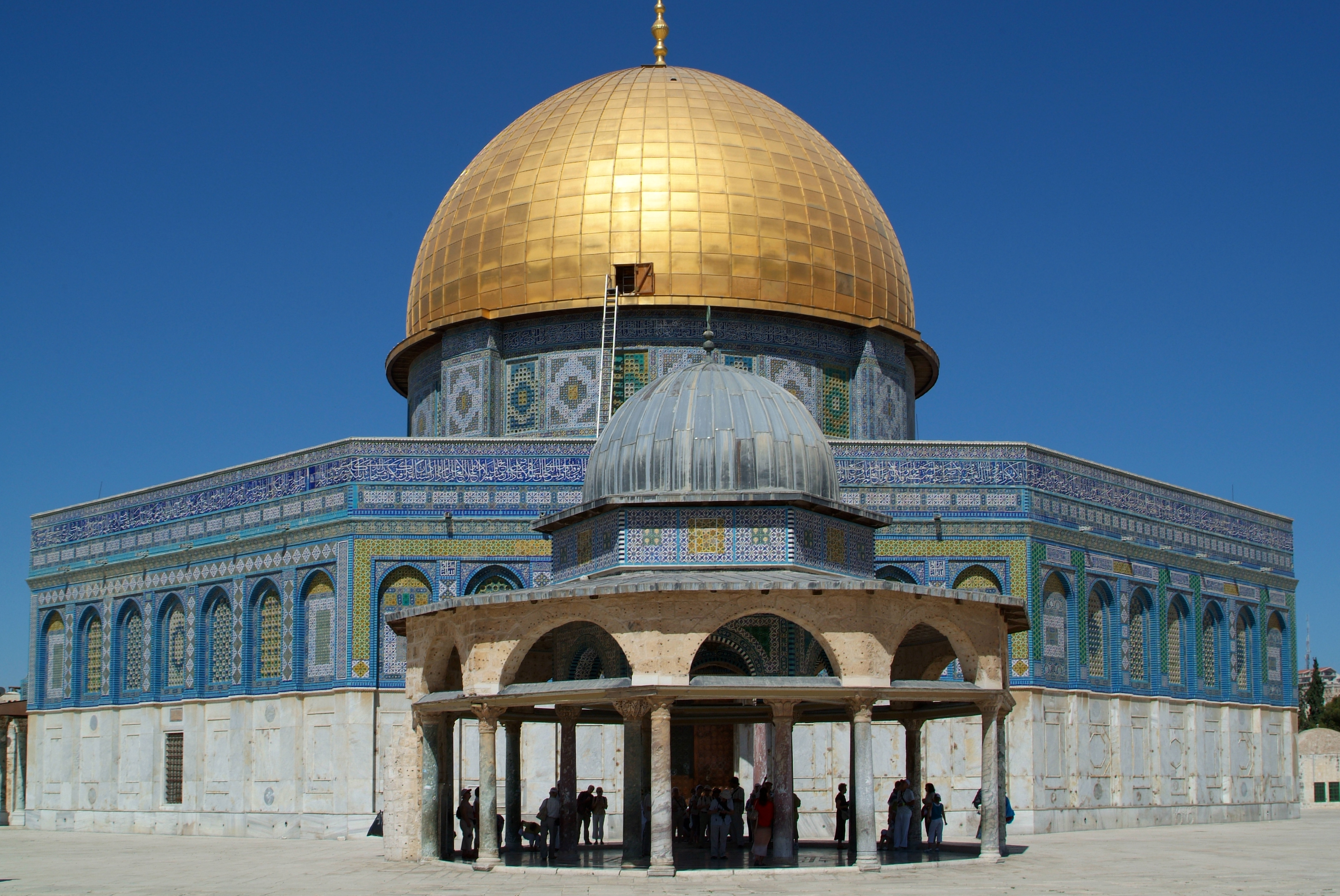 Moschea di Omar (Dome of the Rock) - Gerusalemme